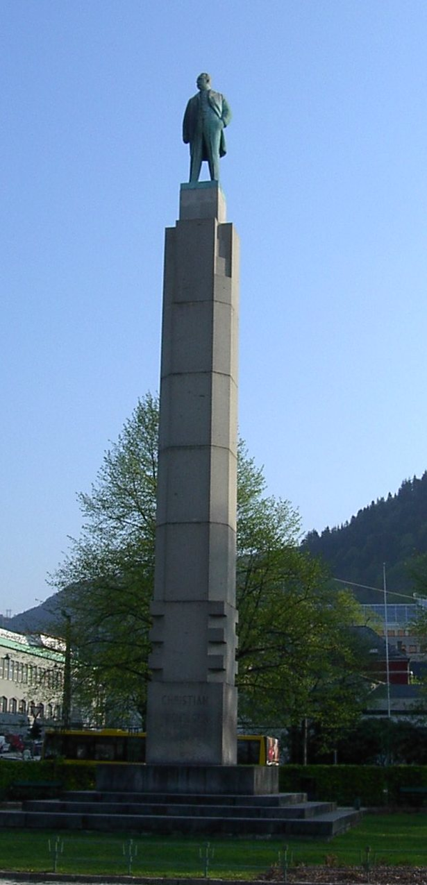 Memorial to Christian Michelsen, Bergen, Norway. Sculpted by Gustav Vigeland.